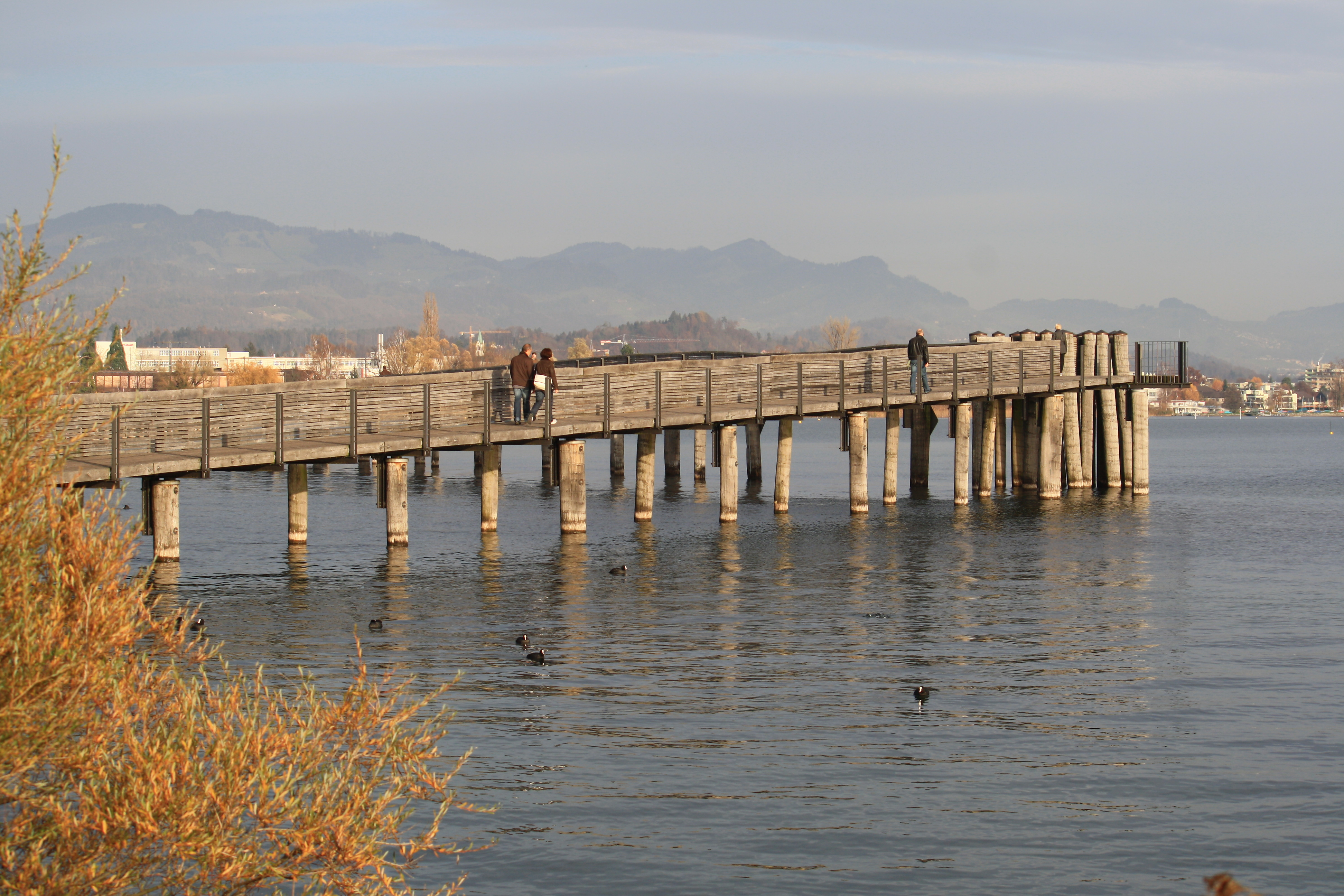 Holzbrücke (Pilgrim's bridge) Rapperswil-Hurden, crossing Obersee (upper Lake Zurich), as seen from Hurden, Hochschule für Technik Rapperswil (HSR) in Rapperswil (SG) to the left, Jona to the right, Bachtel in the background (to the left).